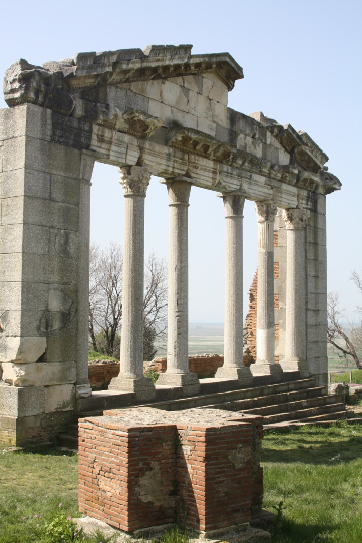 Apollonia, Albania